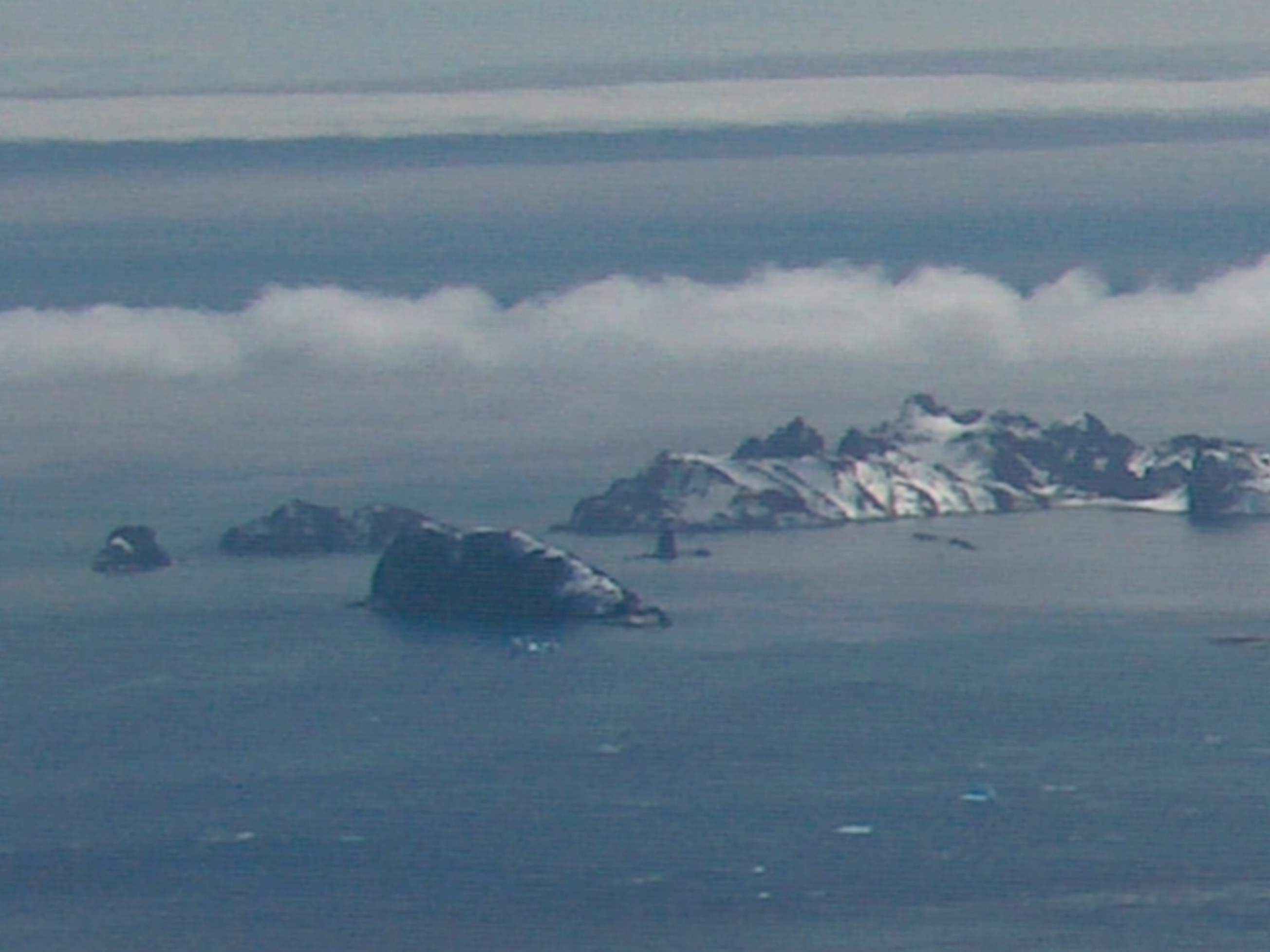 Iratais Point on Desolation Island, Antarctica seen from Vidin Heights, Livingston Island